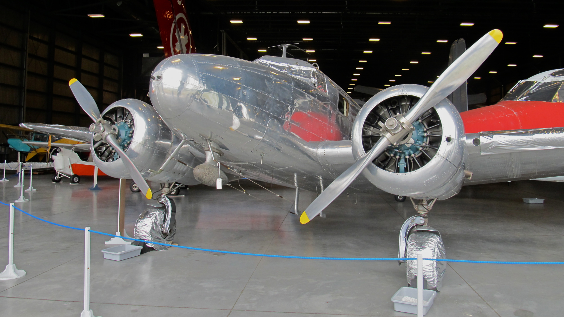 Lockheed Electra Junior L-12A the Canadian Air and Space Museum, Ottawa.